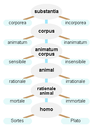 Porphyrian tree according Petrus Hispanus tractatus II, ed. L.M. de Rijk, 20.